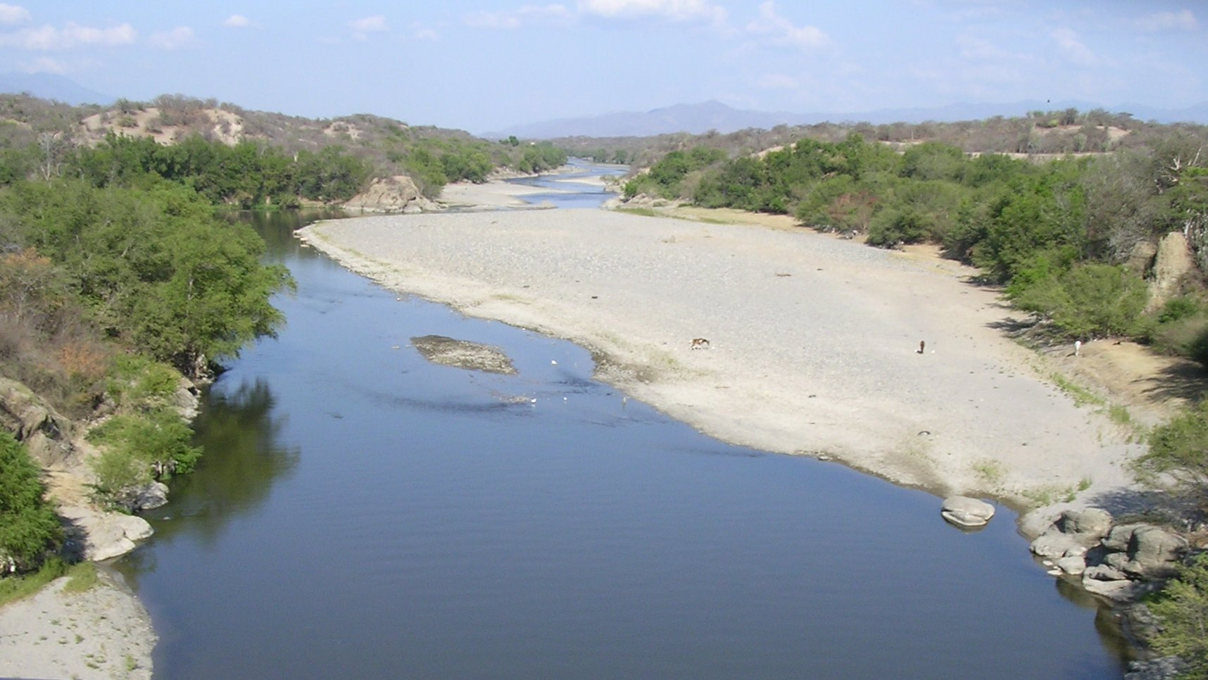 Motagua River during the dry season. Zacapa, Guatemala